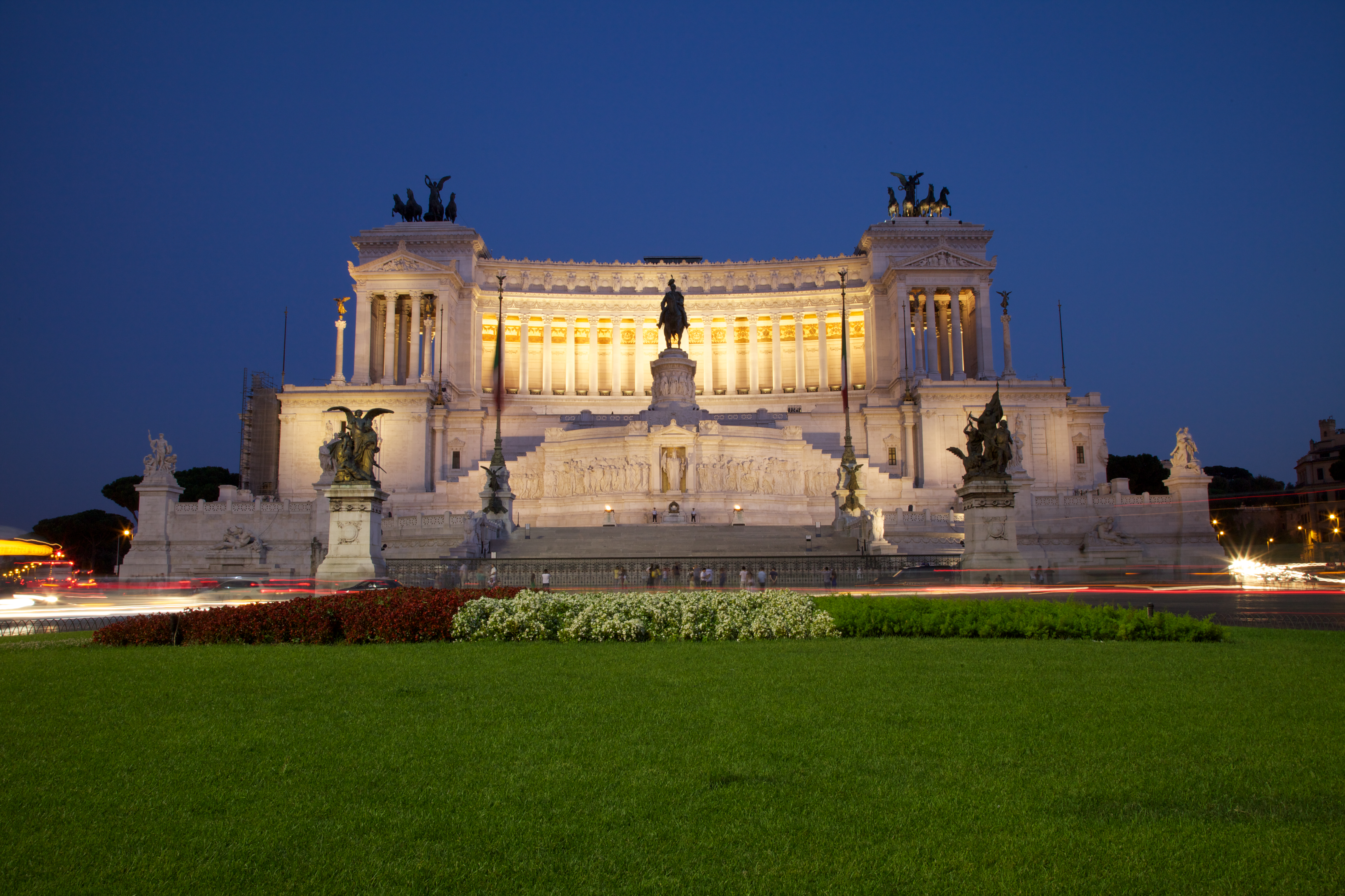 Dusk picture of the Vittorio Emanuele Monument in Rome.